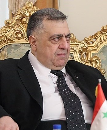 Hammouda Sabbagh the Speaker of the People's Council of Syria since September 2017 meeting Ali Shamkhani